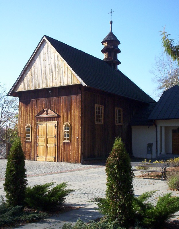 Rebuilt church (the old one burnt in 1993) - Puszcza Mariańska, western part of Masovian Voivodship, Poland.